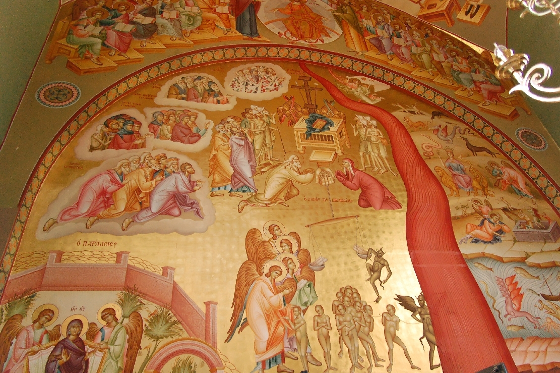 Impressions Wikimania 2011 Haifa